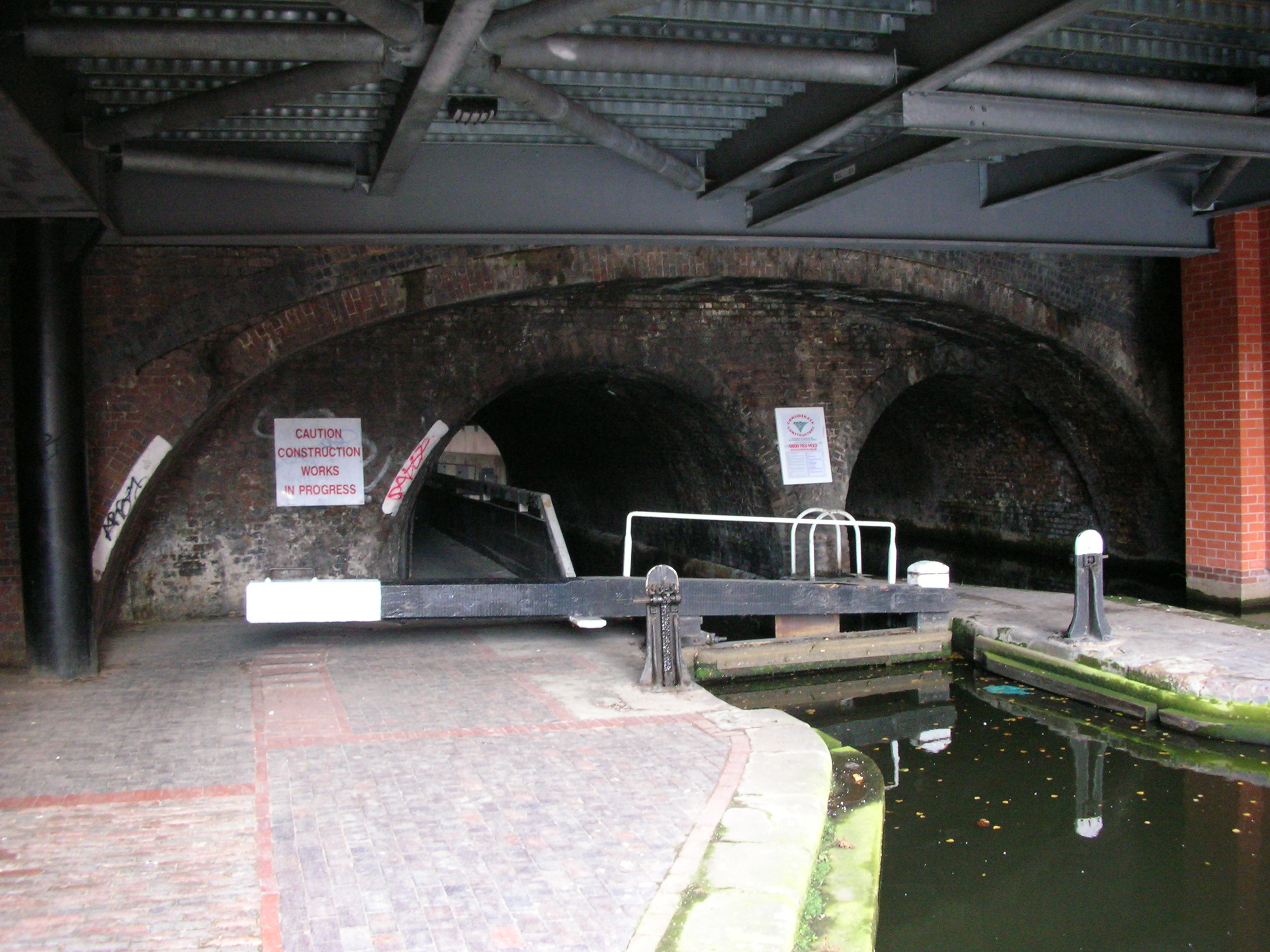 Lock number 9 of the Farmer's Bridge flight of the Birmingham and Fazeley Canal running under Newhall Street, with a lock gate on either side of the bridge. In Birmingham, England.